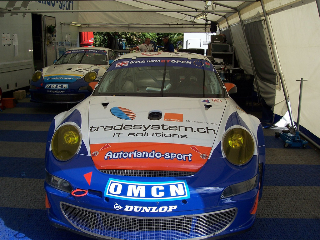 Autorlando Sport's Porsche 997 GT3-RSRs at the Brands Hatch round of the International GT Open